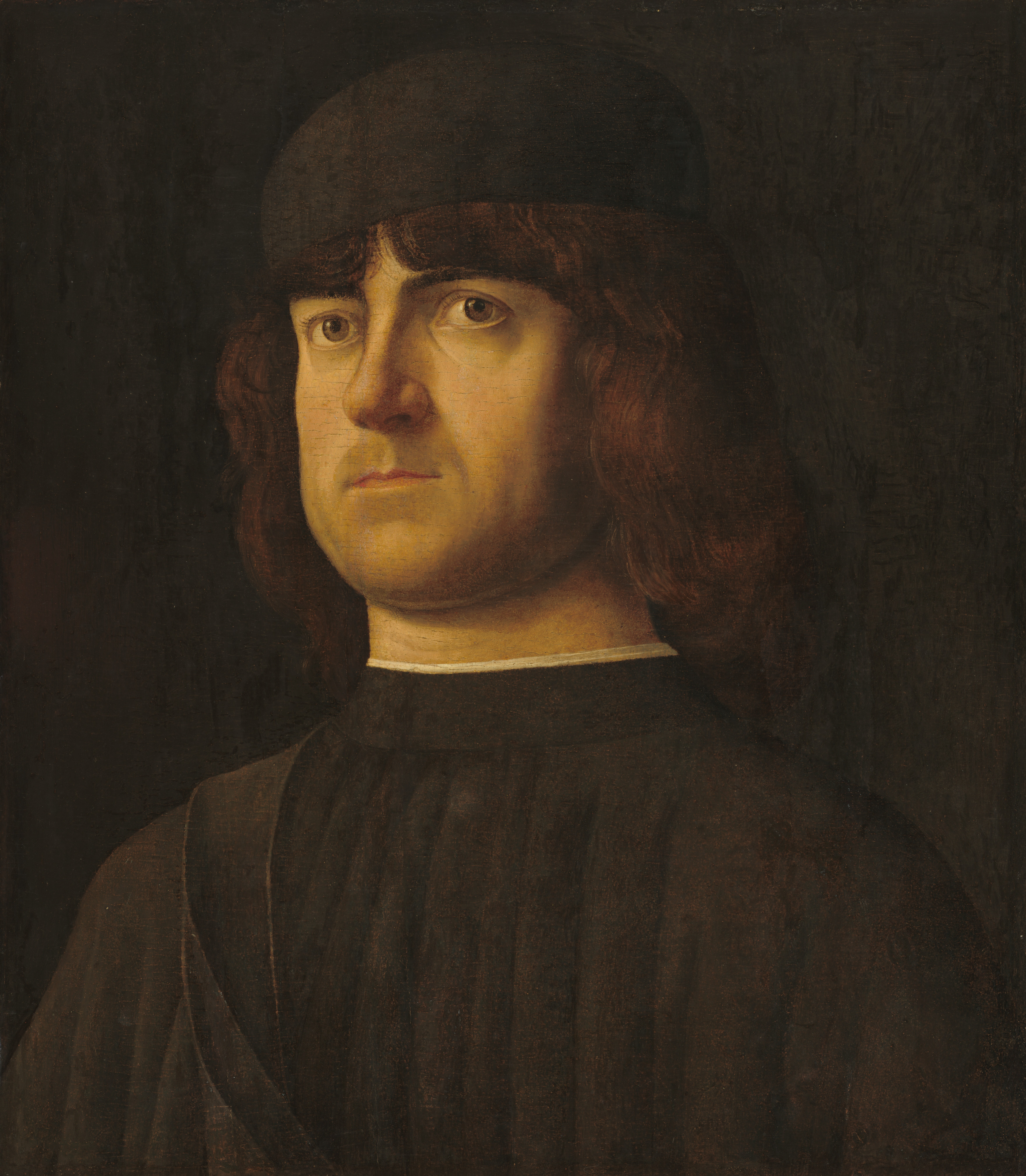 Portrait of a Man